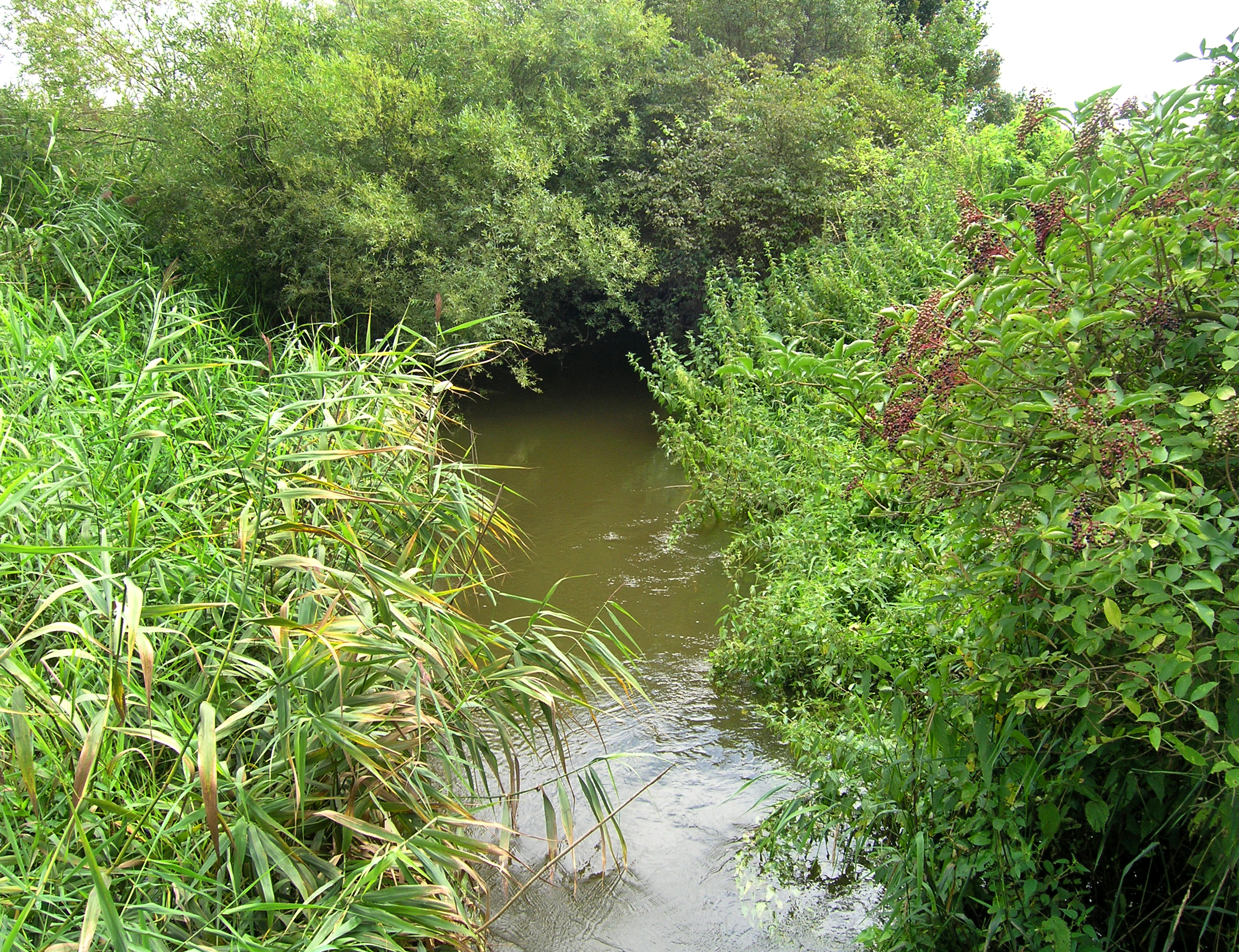 Čertovka creek in Lišice, part of Svatý Mikuláš village, Czech Republic